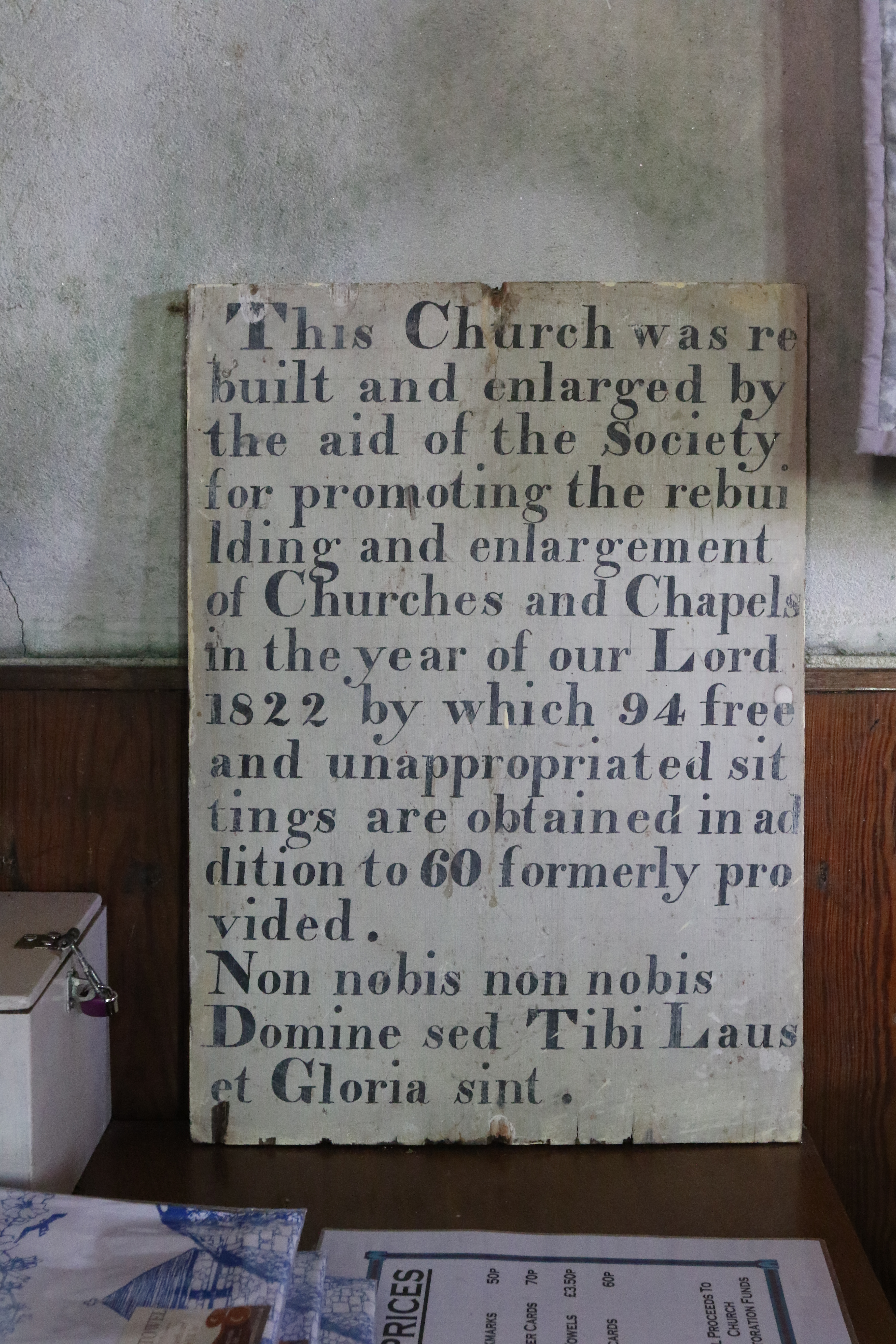 This Church was rebuilt and enlarged by the aid of the Society for promoting the rebuilding and enlargement of Churches and Chapels in the year of our Lord 1822 by which 94 free and unappropriated sittings are obtained in addition to 60 formerly provided. Non nobis non nobis Domine sed Tibi Laus et Gloria sint.